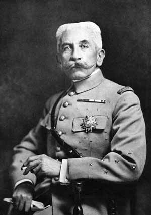 Portrait of Marshal Lyautey